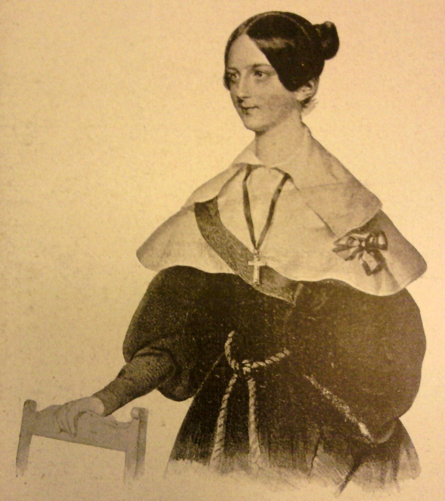 Seilern Crescence, István Széchenyi´s wife